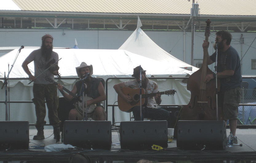 Mountain Sprout (bluegrass band) playing at 5th annual DelFest at Allegany County Fairgrounds, Maryland on May 27, 2012.